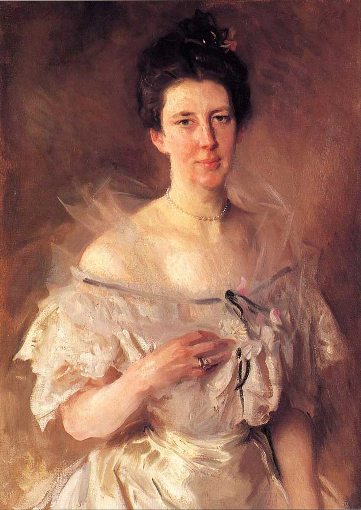 Mrs. Gardiner Green Hammond (Esther Fiske Hammond) John Singer Sargent -- American painter 1903 Worcester Art Museum, Massachusetts Oil on canvas 63.5 x 63.83 cm (25 x 25.13 in.) Jpg: webshots